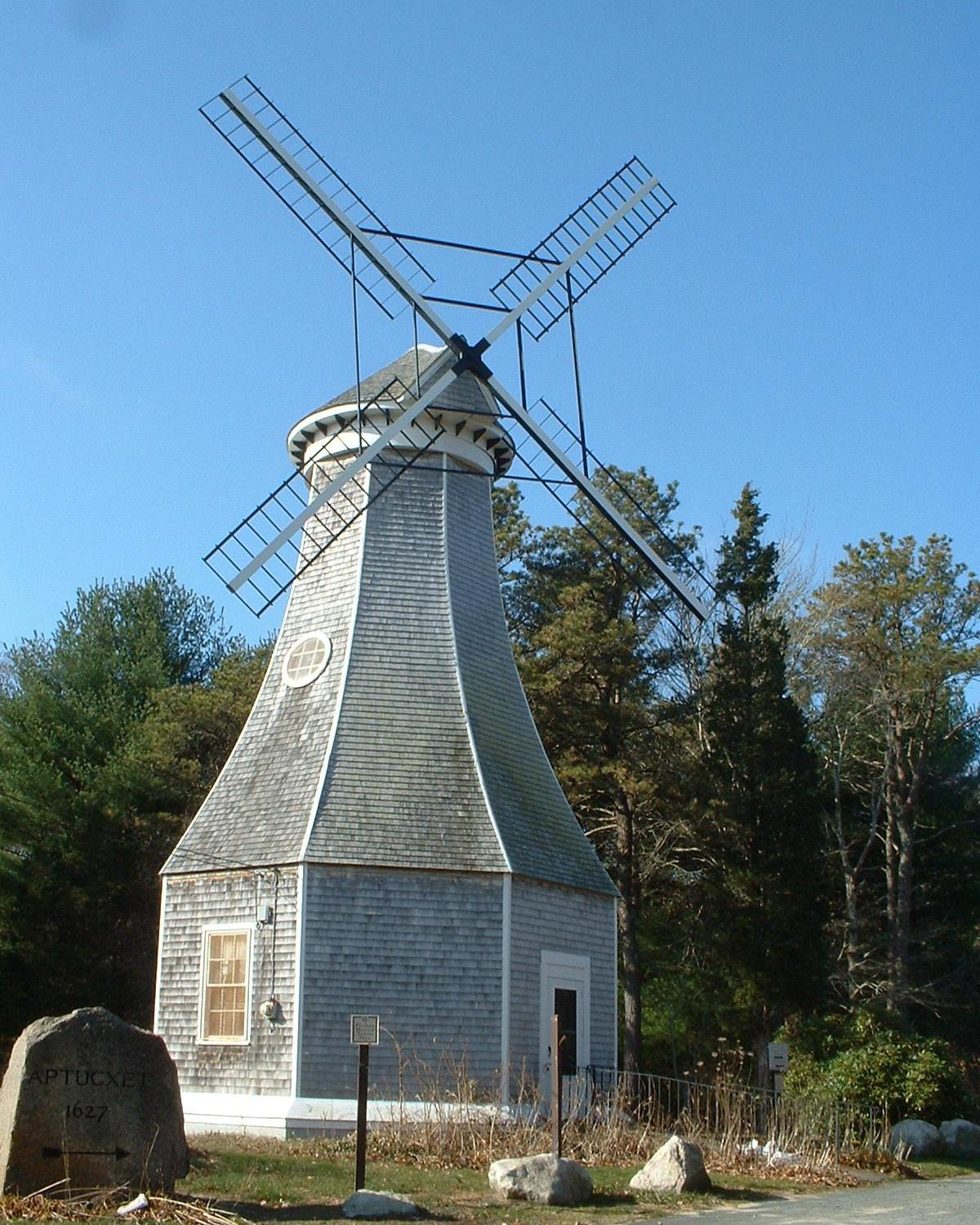 The Windmill at the Aptucxet Trading Post in Bourne, Massachusetts welcomes visitors to the site.